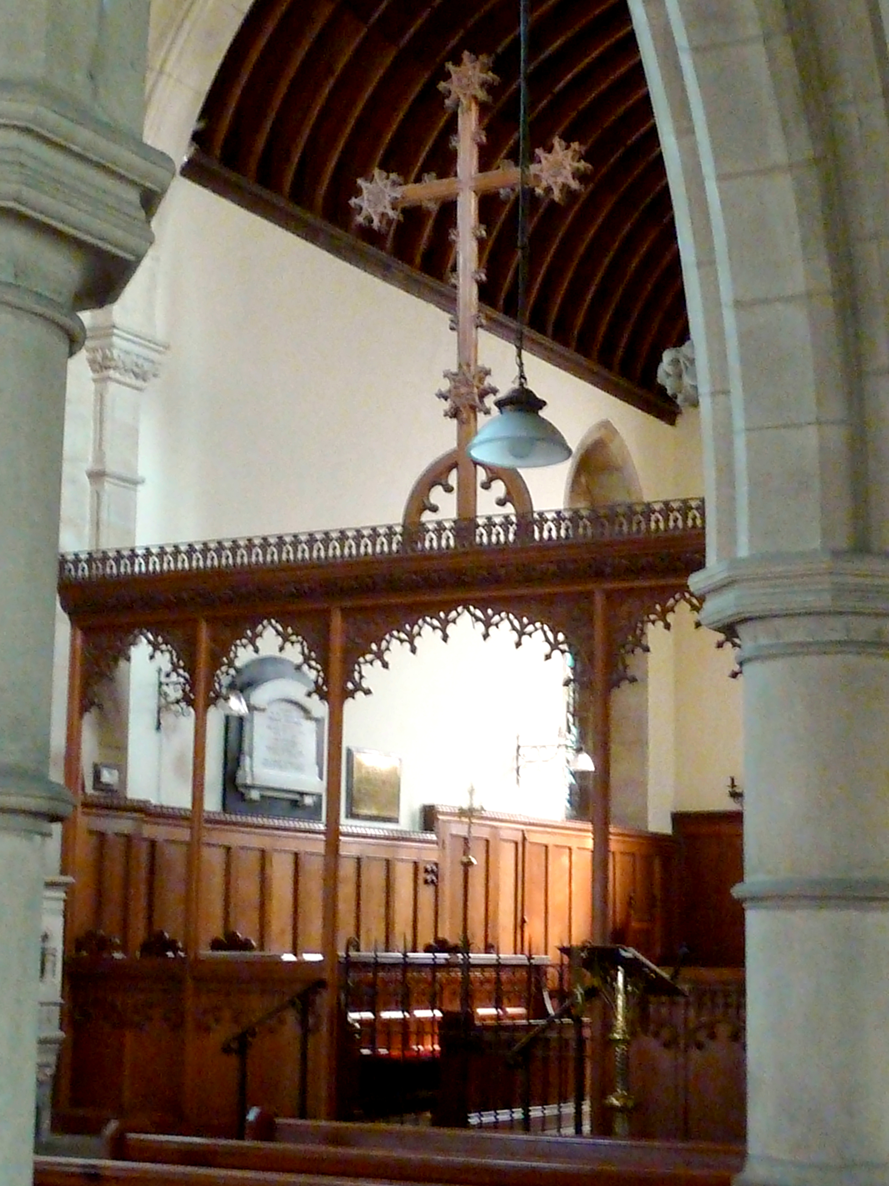 Interior of Church of St Thomas the Apostle, Killinghall, North Yorkshire, England. Church completed in 1880, by architect William Swinden Barber. View of 1905 rood screen from south aisle.